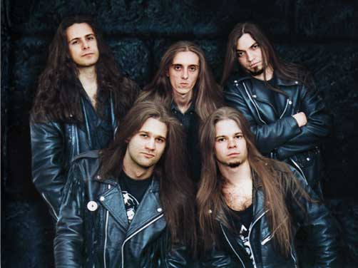 The members of Wisdom in 2004